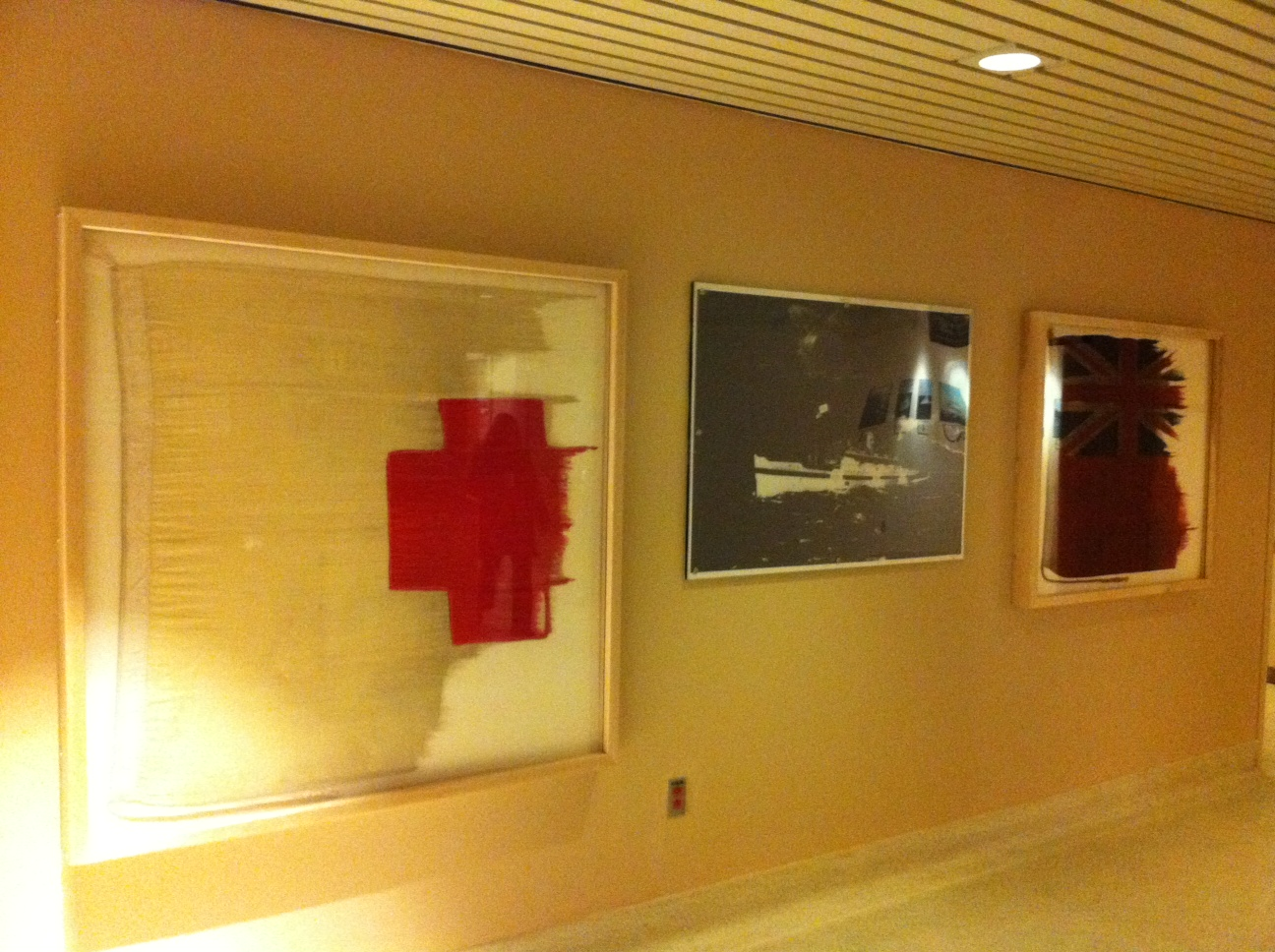 HMCS Lady Nelson Commemoration Display, Stadacona Hospital CFB Halifax